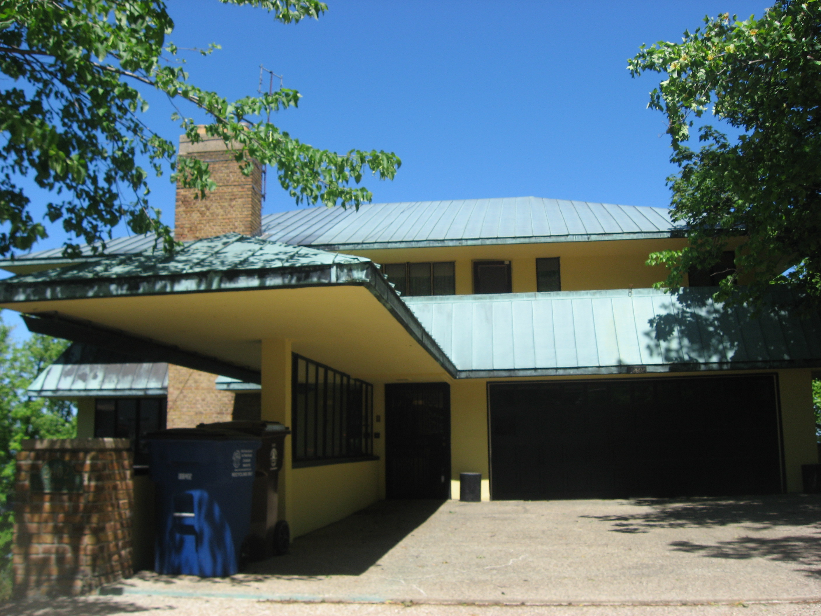 Driveway view of the John and Isabel Burnham House, located at 2602 Lakeshore Drive in Long Beach, Indiana, United States. Built in 1934 according to a design by John Lloyd Wright, it is listed on the National Register of Historic Places.